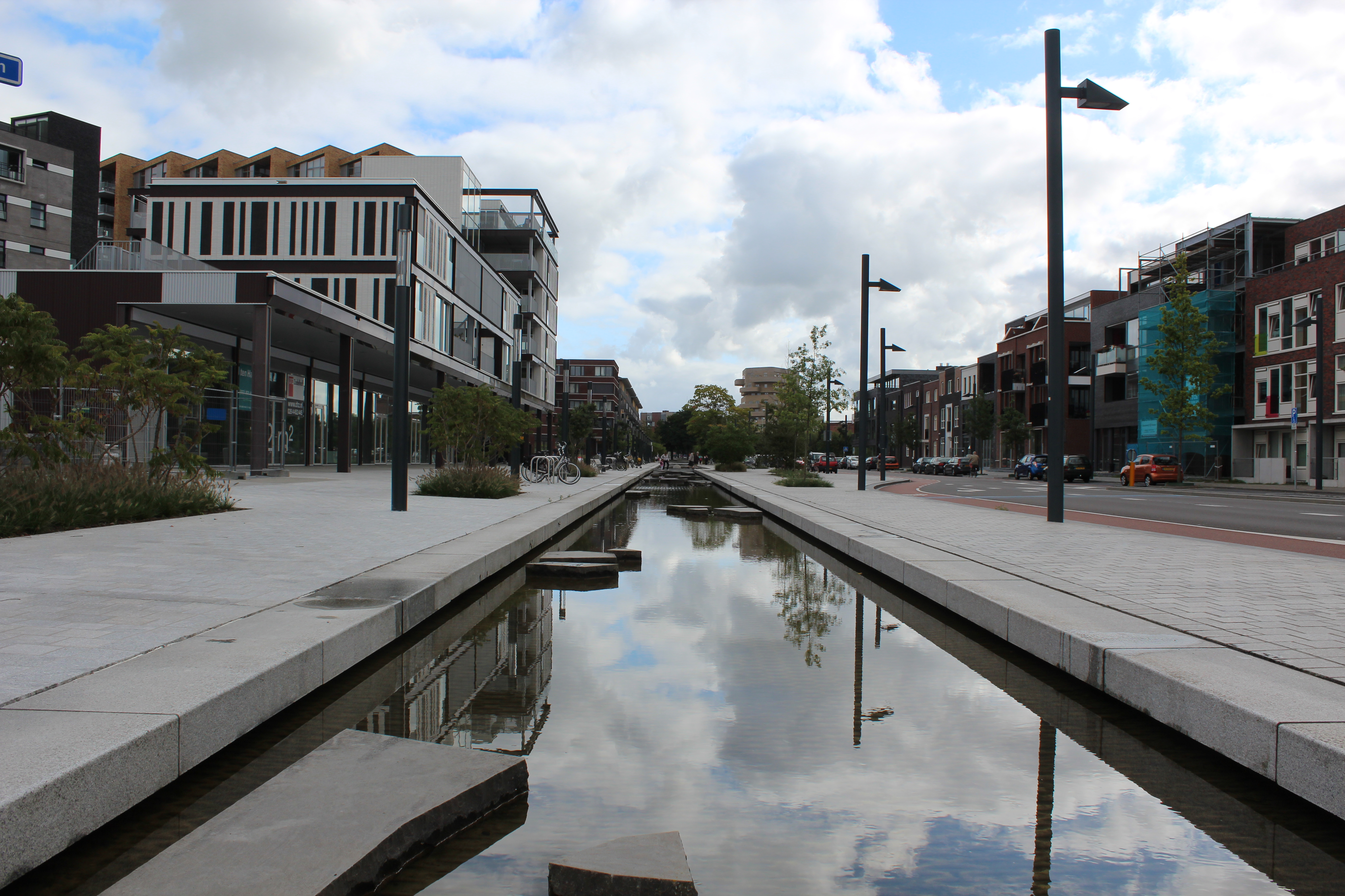 The Roombeek in Enschede in the district with the same name